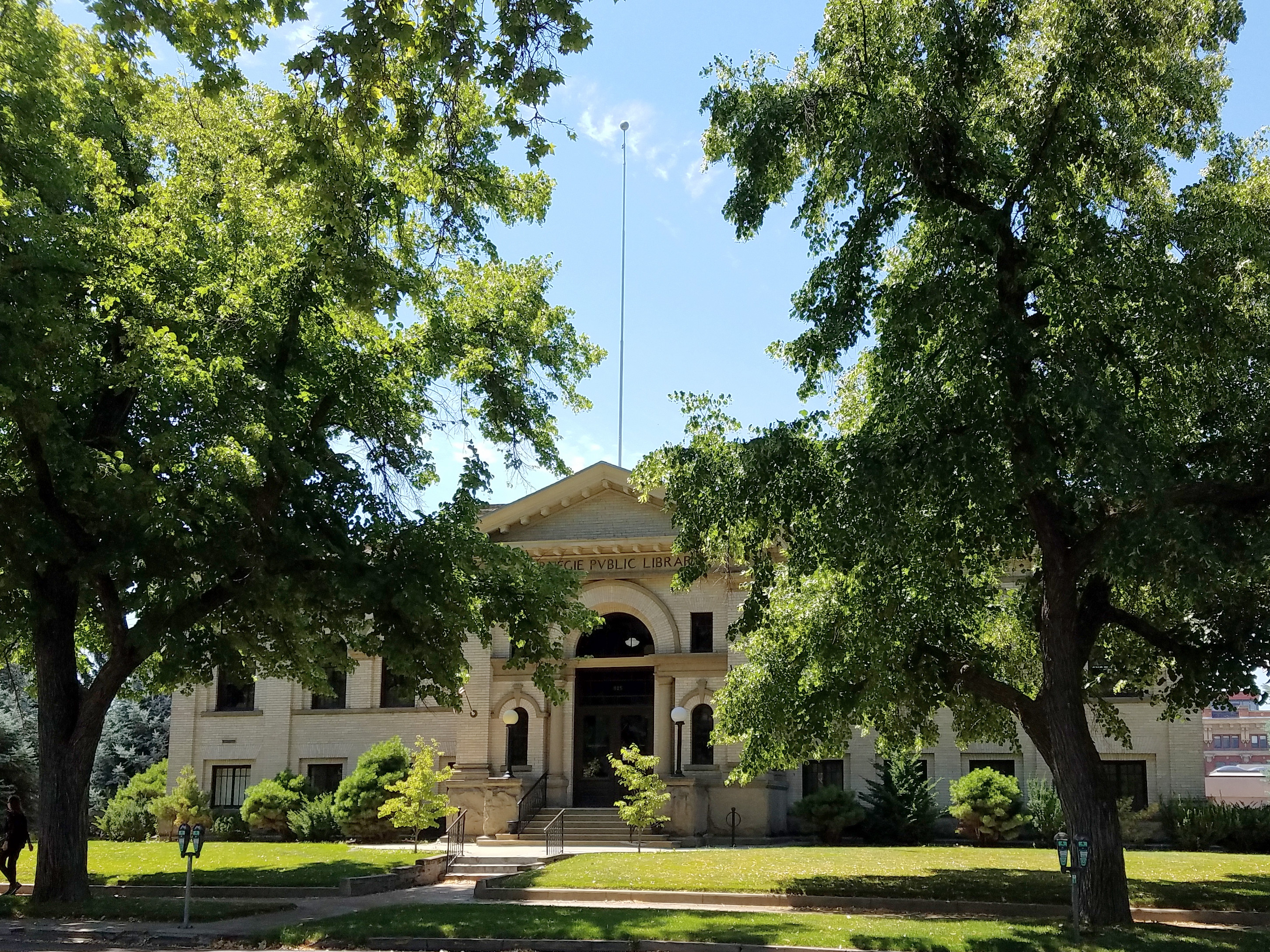 Carnegie Public Library (1904) in Boise, Idaho, was designed by Tourtellotte & Co. and is listed on the National Register of Historic Places. The building is also part of the Fort Street Historic District.